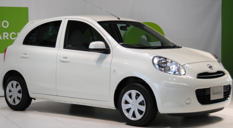 Nissan March 12G.